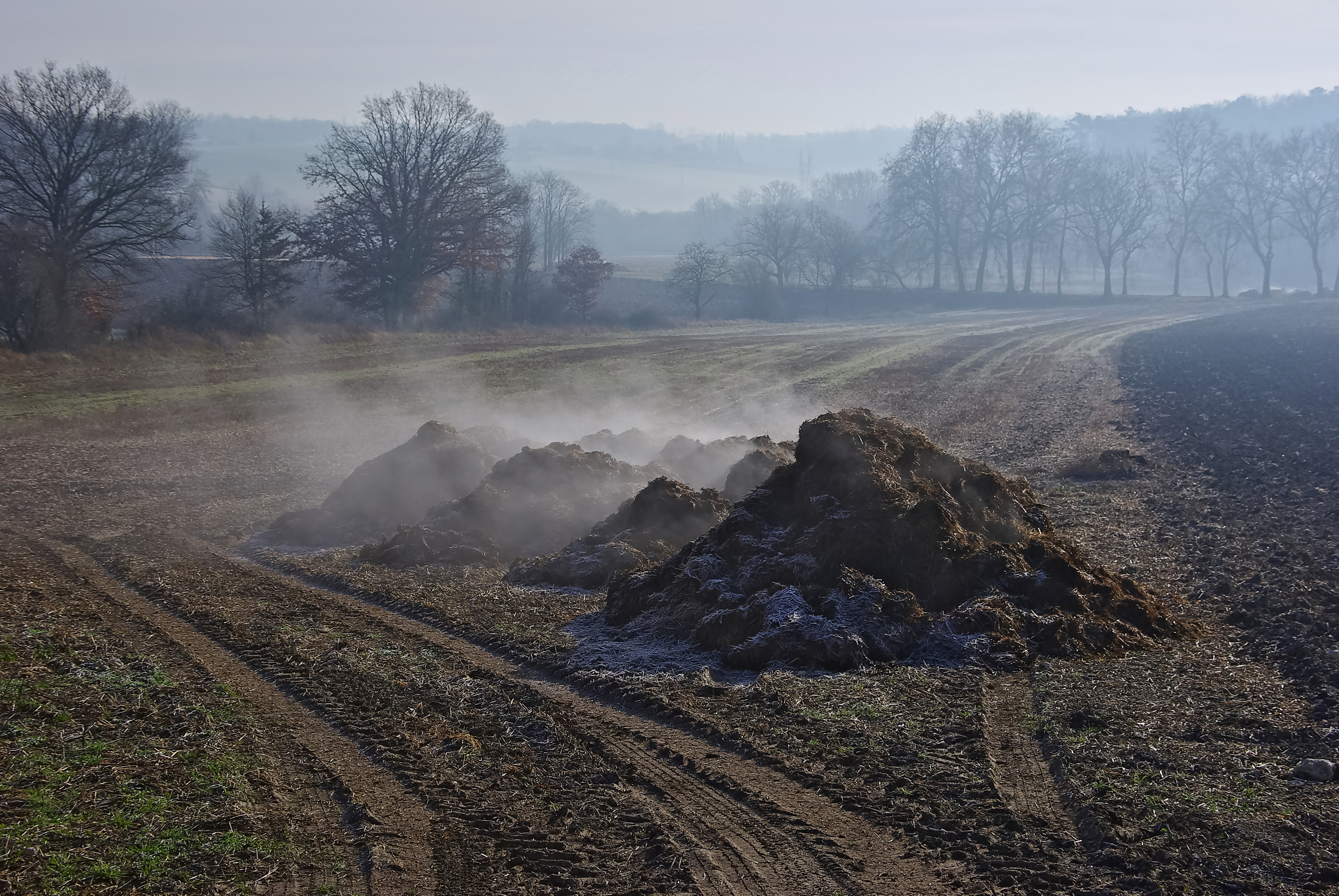 Fertilizer in a field, Winter, near Pérignac, Charente, France.